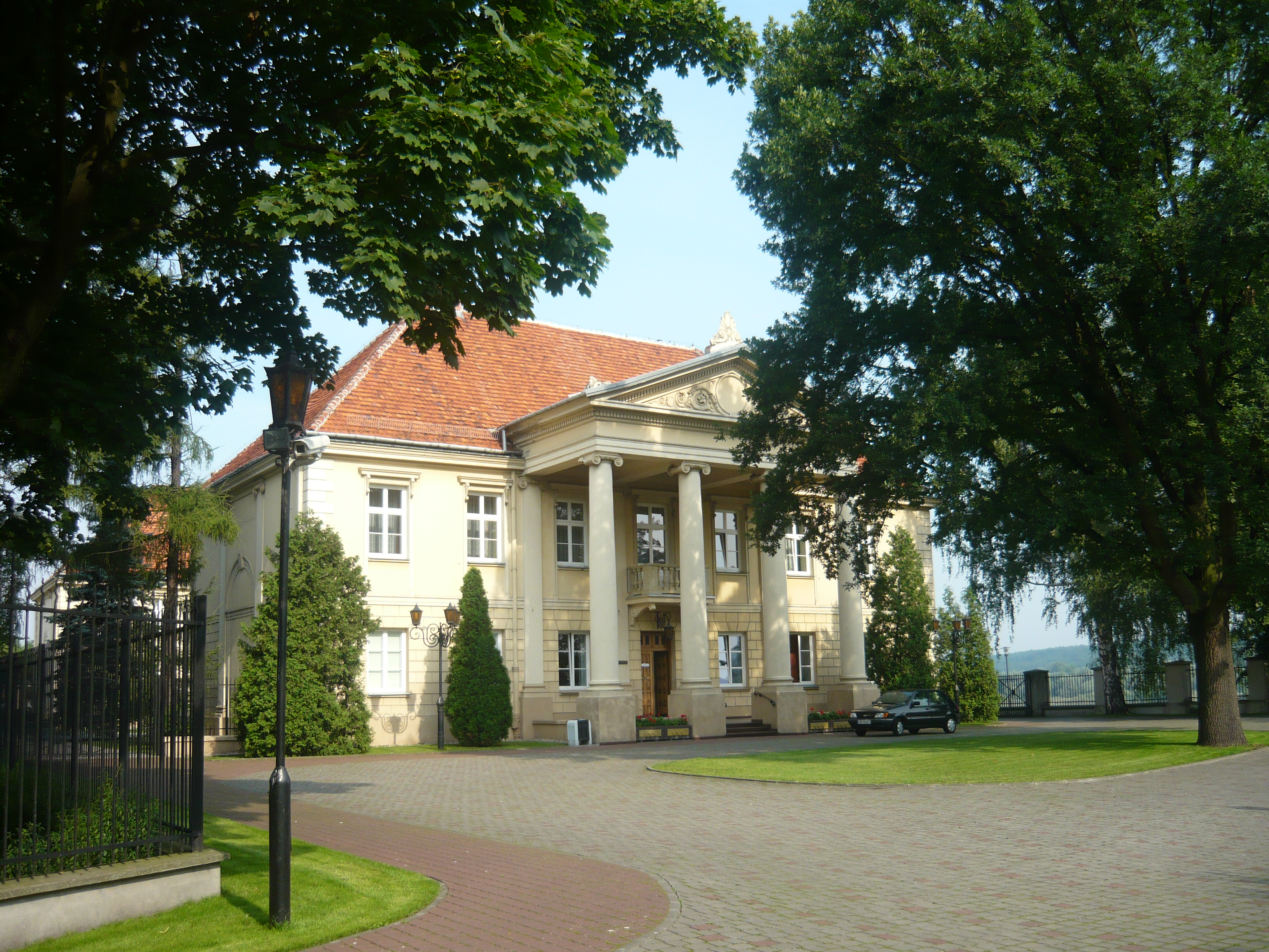 Bishop's Palace in Włocławek.